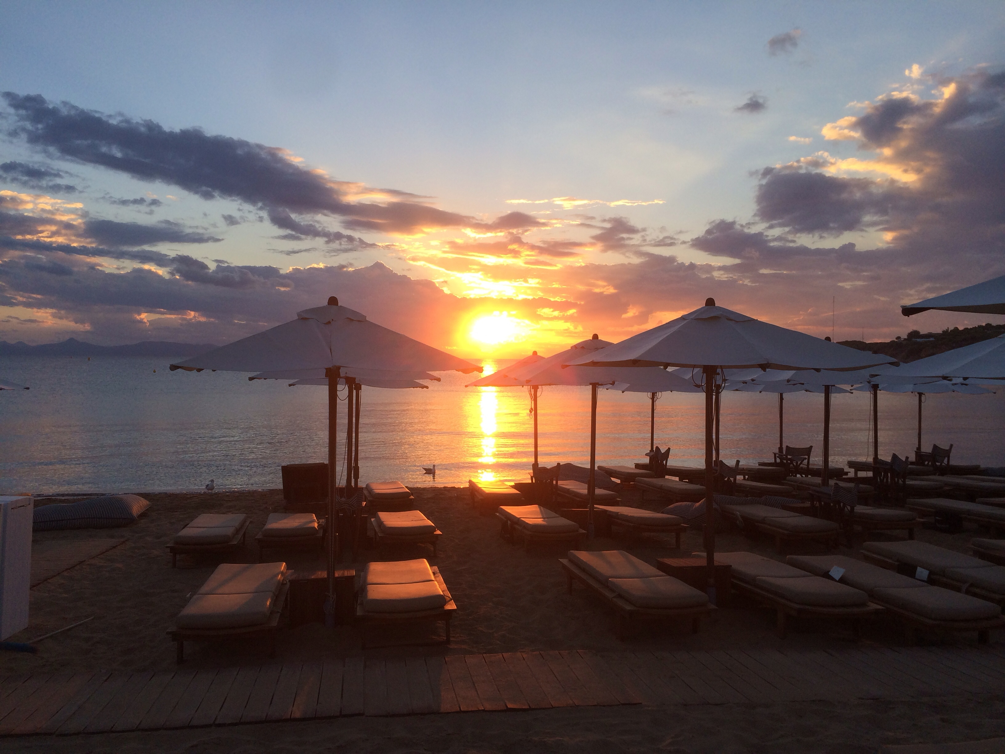 Beach umbrellas and sun beds at Astir Beach, Vouliagmeni, Athens, Greece at sunset